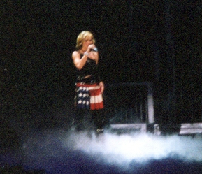 Madonna concert in Los Angeles back in '01